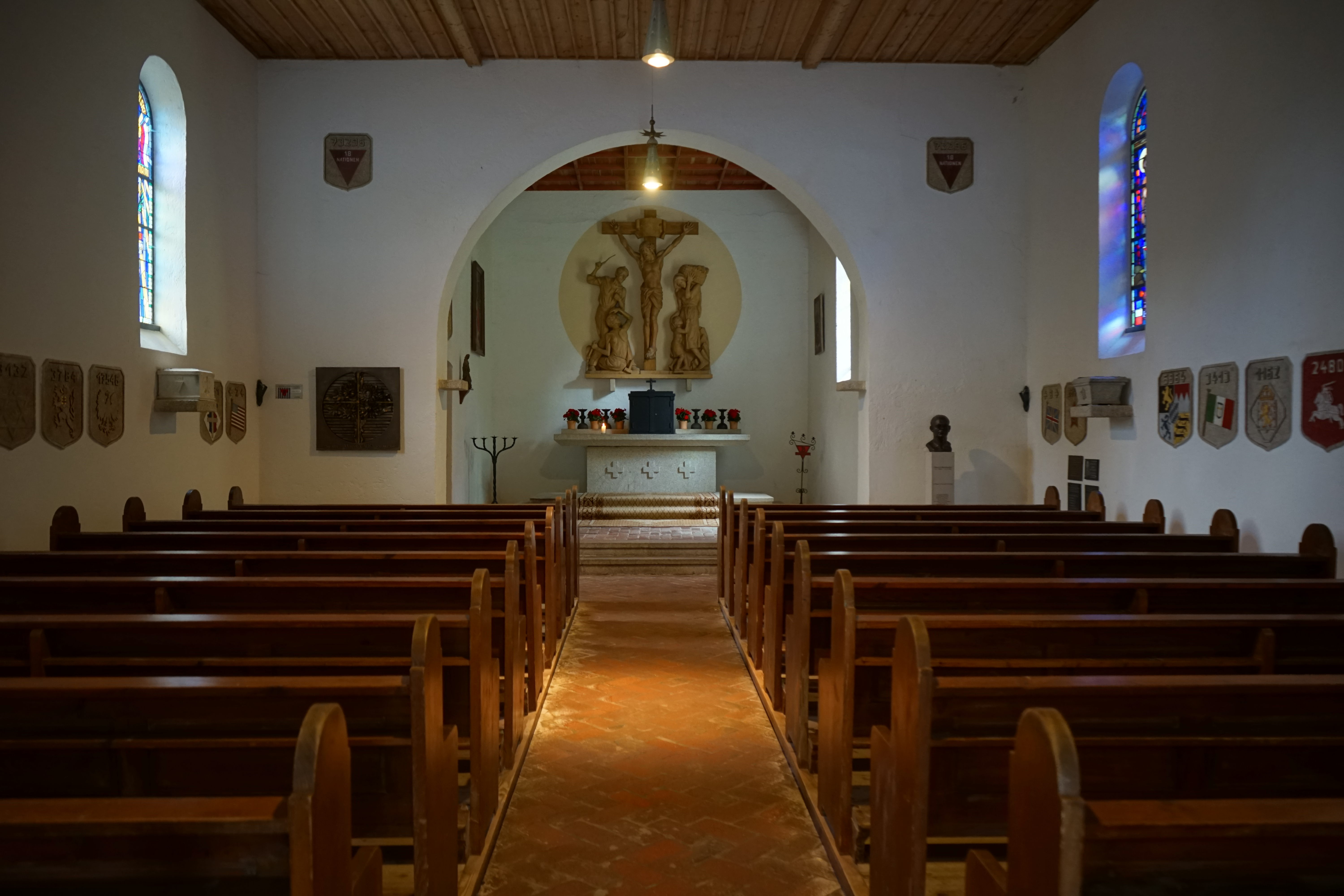 Flossenbürg concentration camp, chapel interieur.